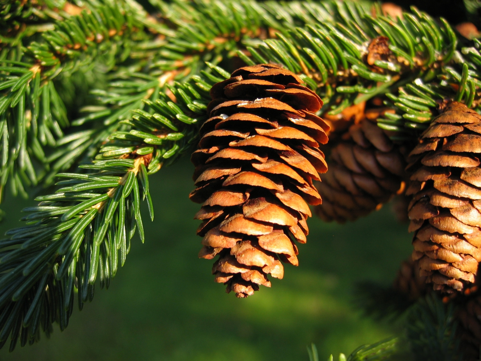 Picea rubens Sarg. - red spruce cones photographed in the United States